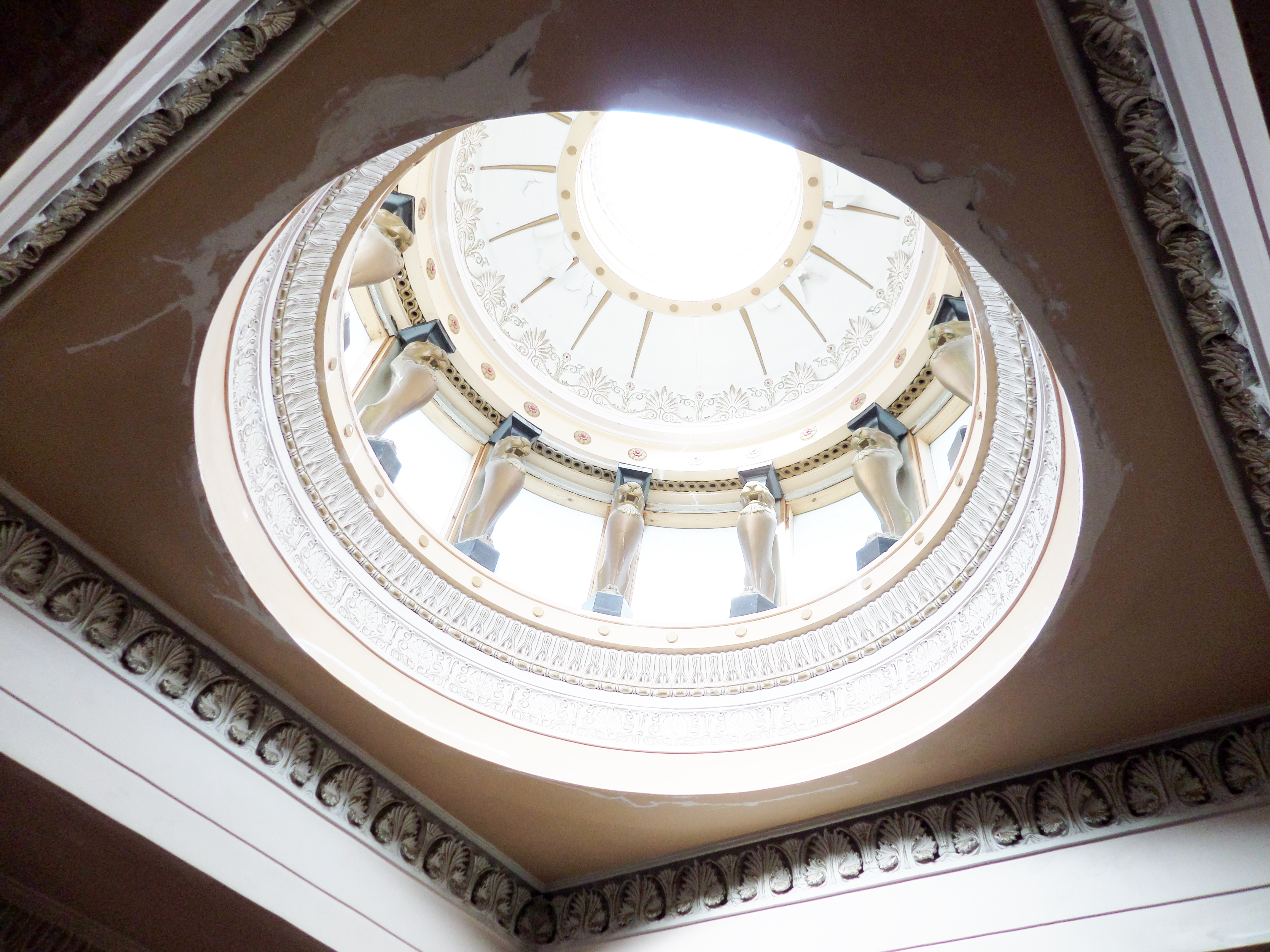 Holmwood House cupola and chimeraae. Glasgow, Scotland